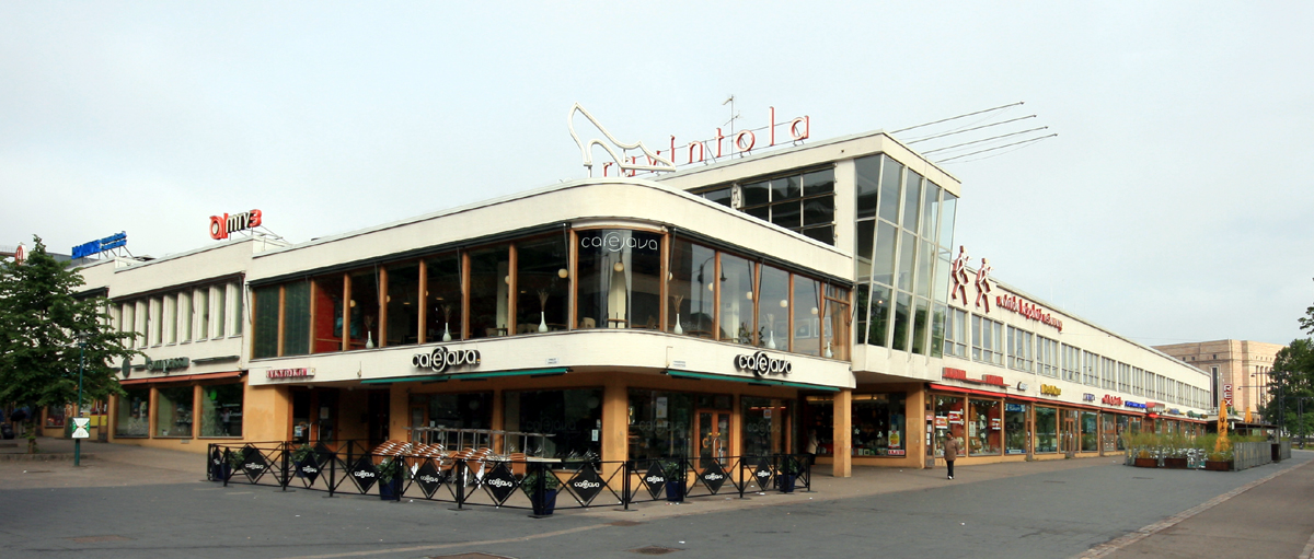 The Glass Palace, Mannerheimintie 22–24, Helsinki. Architects: Viljo Revell, Niilo Kokko and Heimo Riihimäki. Built 1936.